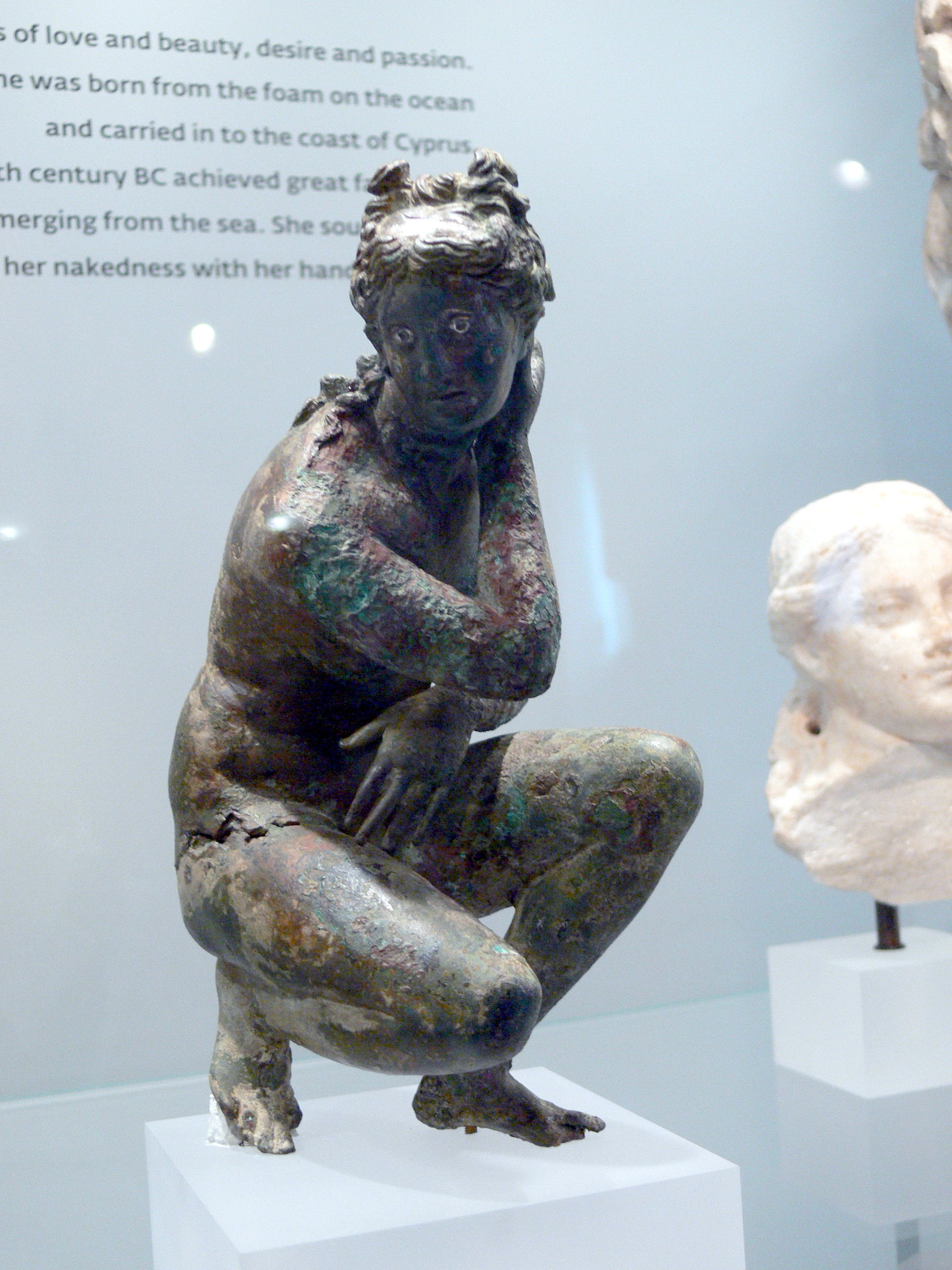 Ny Carlsberg Glyptothek, Copenhagen. Ancient Greek bronze statue: Aphrodite crouching at the sea.